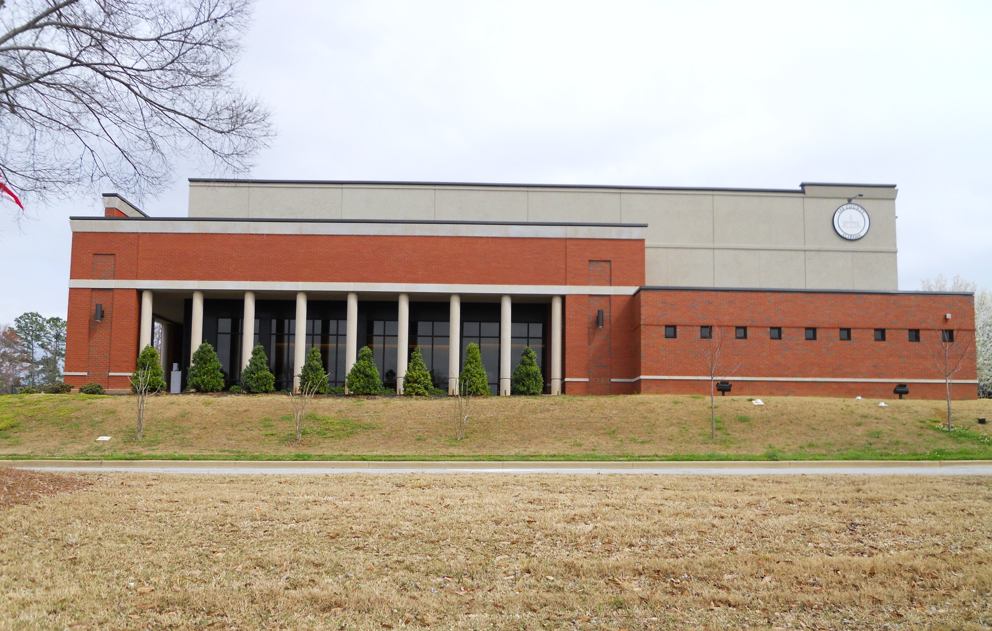 This is a photograph of the Lee County Courthouse Auburn Satellite Office located at 1266 Mall Parkway in Auburn.